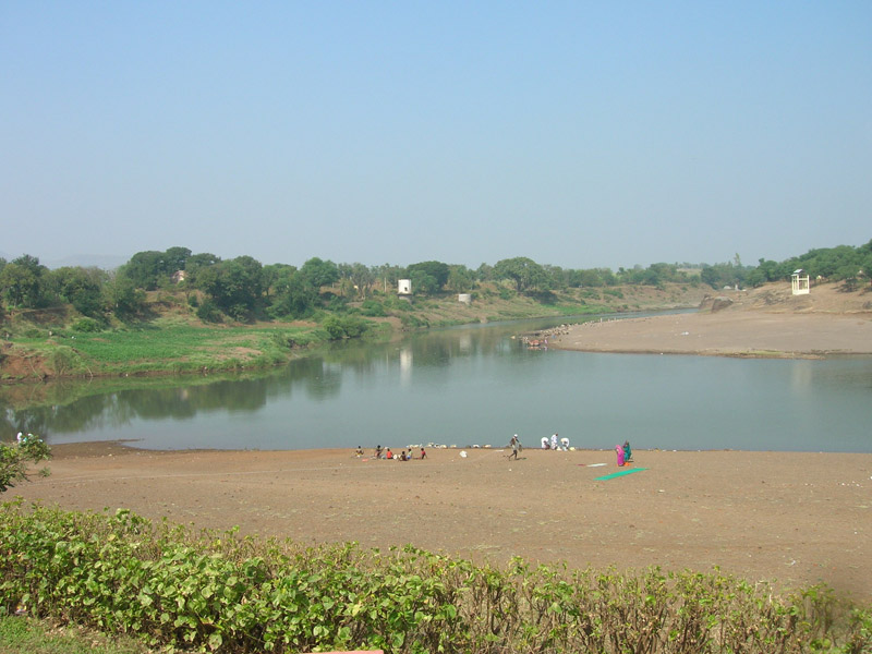 This photo is taken on famous "Pritisangam" - confluence of Krishna and Koyana rivers.